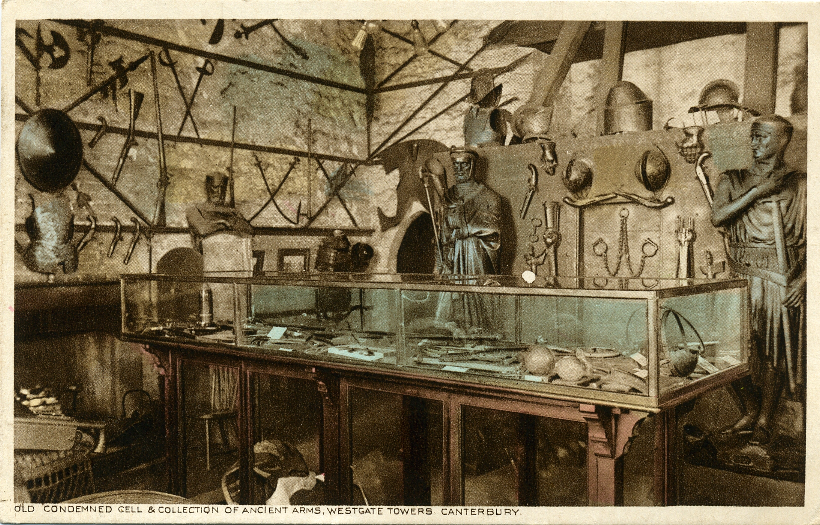 1908 tinted postcard of opening display at Westgate Towers Museum, Canterbury, Kent, England, which opened in 1908. Full searches were carried out over several years in Canterbury museums, libraries, archives and books about postcards, and no images like this one were found. No reference to such an image was found. No hint or clue about the author of this photograph was found. The back of the postcard was printed with the word "postcard" and the usual postcard division lines, but there was no other writing there. This is usually taken to mean that the photographer is anonymous. The original photograph was in due course donated to a Canterbury museum after uploading.